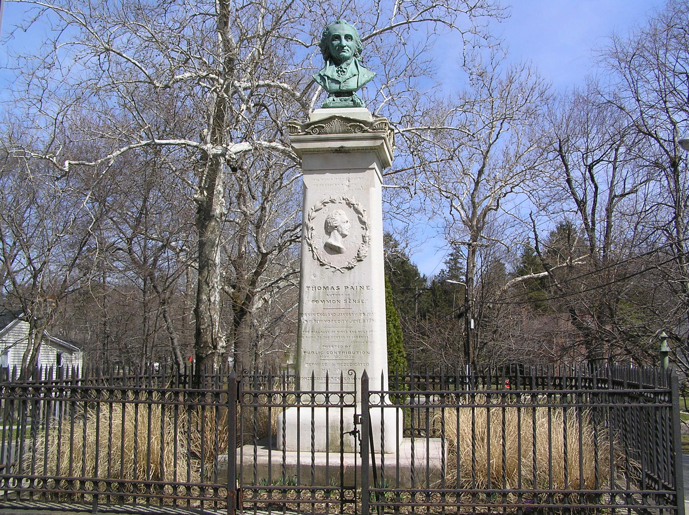 I took this photograph of the monument to Thomas Paine on North Avenue in New Rochelle, New York, on March 30, 2007. GNU Free Documentation License - or